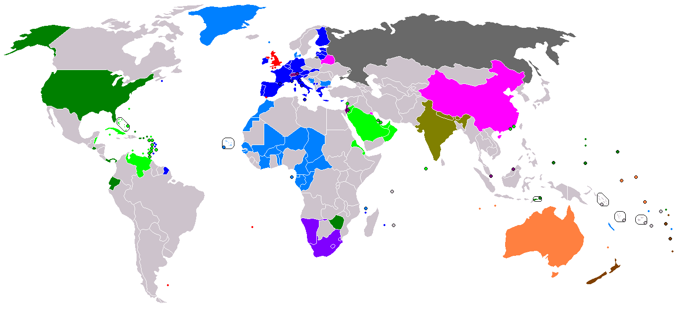 Foreign Currency uses and pegs, Russian ruble included